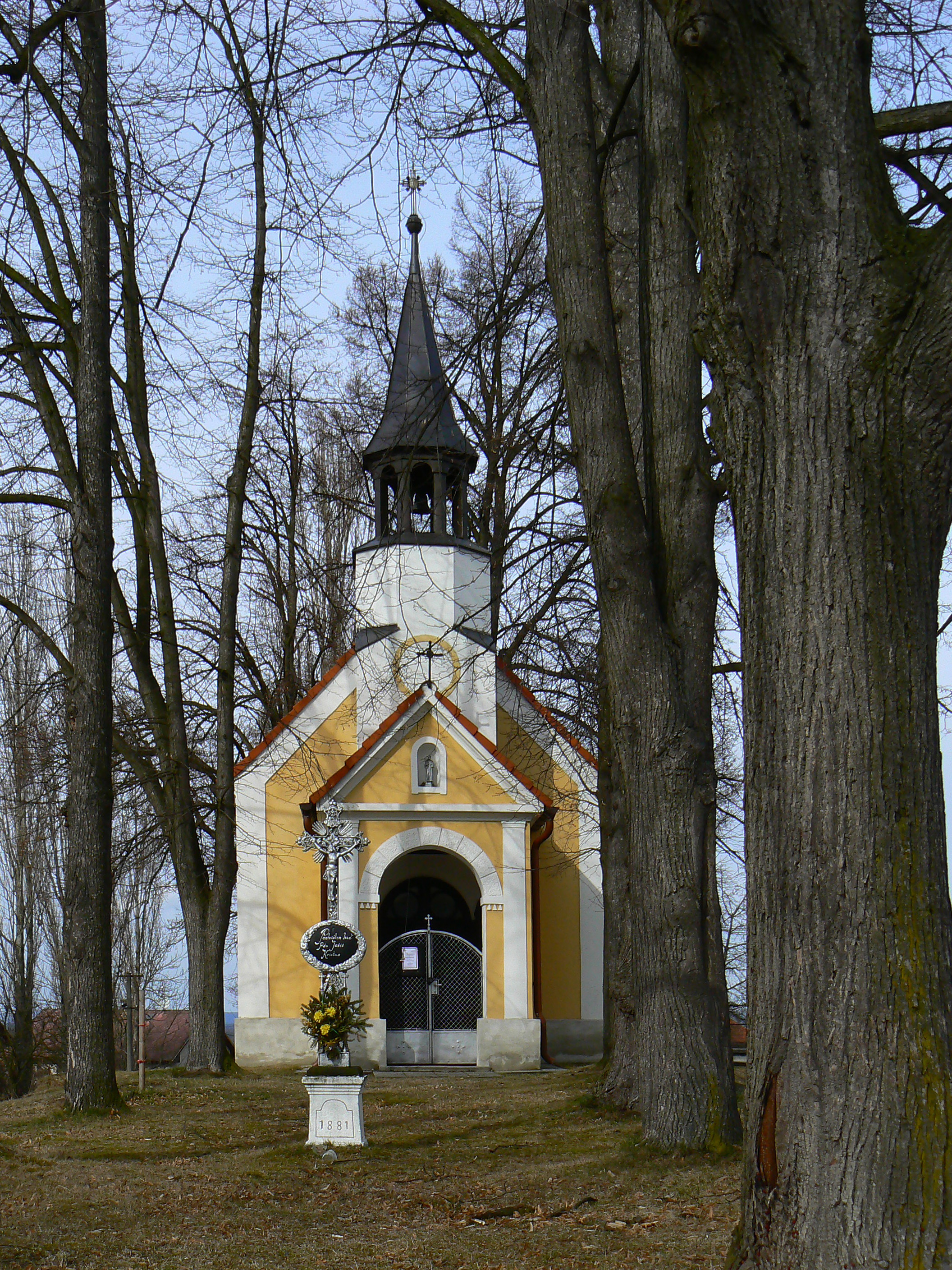 Chapel in Kaliště, part of the municipality of Lipí, in České Budějovice District, Czech Republic.